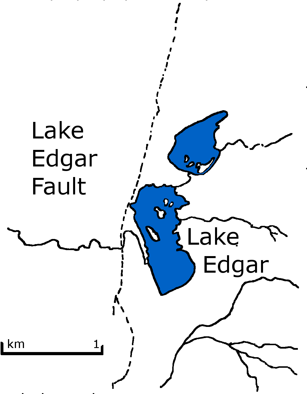 drawing of how Lake Edgar was pre flooding (before 1970s)